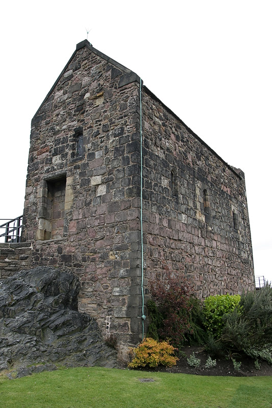 Saint Margaret's Chapel in Scotland. Date: 05-24-2005 5-4.5 USM Focal Length: 15mm F-Stop: f/7.1 Shutter Speed: 1/100 sec ISO: 100 Photographer: Chrys Category:Images of Scotland